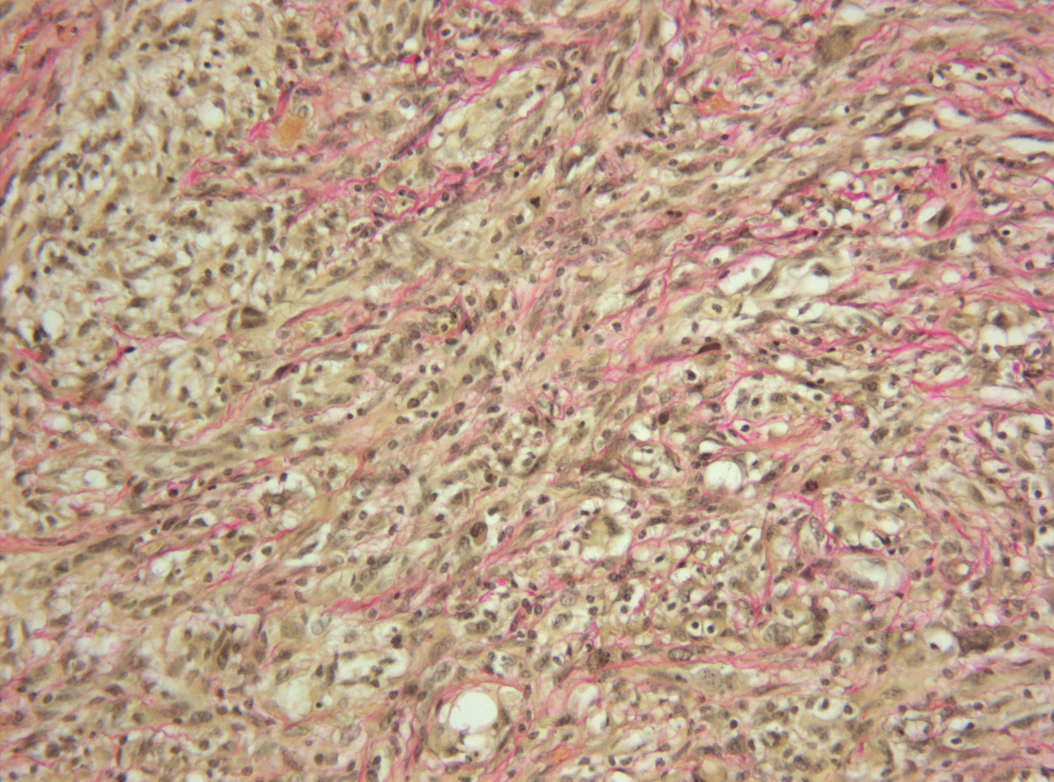 Histopathology of gliosarcoma. van-Giesson-Stain. magnification 200x